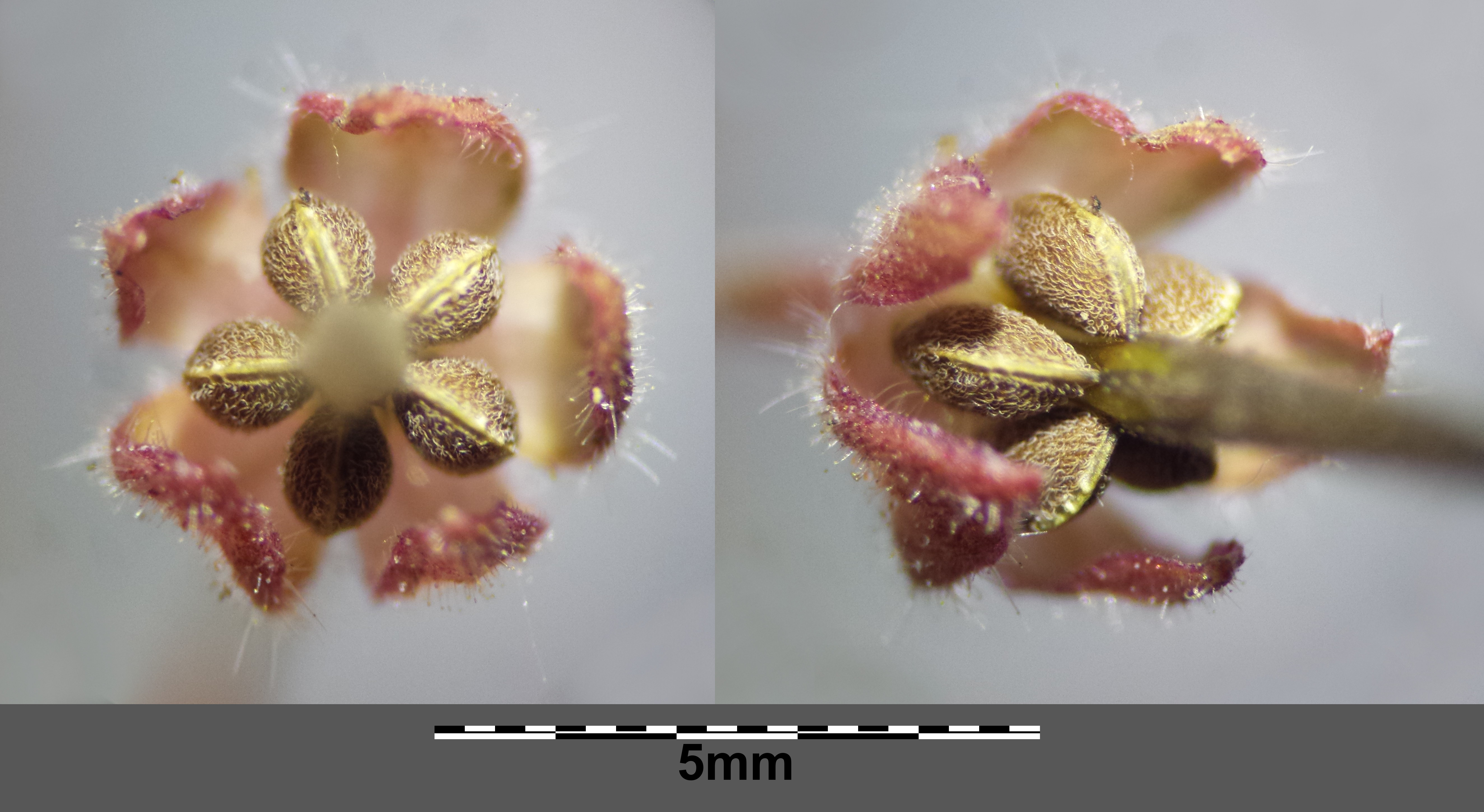 Hairy mericarps Taxonym: Geranium pusillum ss Fischer et al. EfÖLS 2008 ISBN 978-3-85474-187-9 Location: Eichleiten to the North of Enzersfeld, district Korneuburg, Lower Austria - ca. 250 m a.s.l. Habitat: vineyard